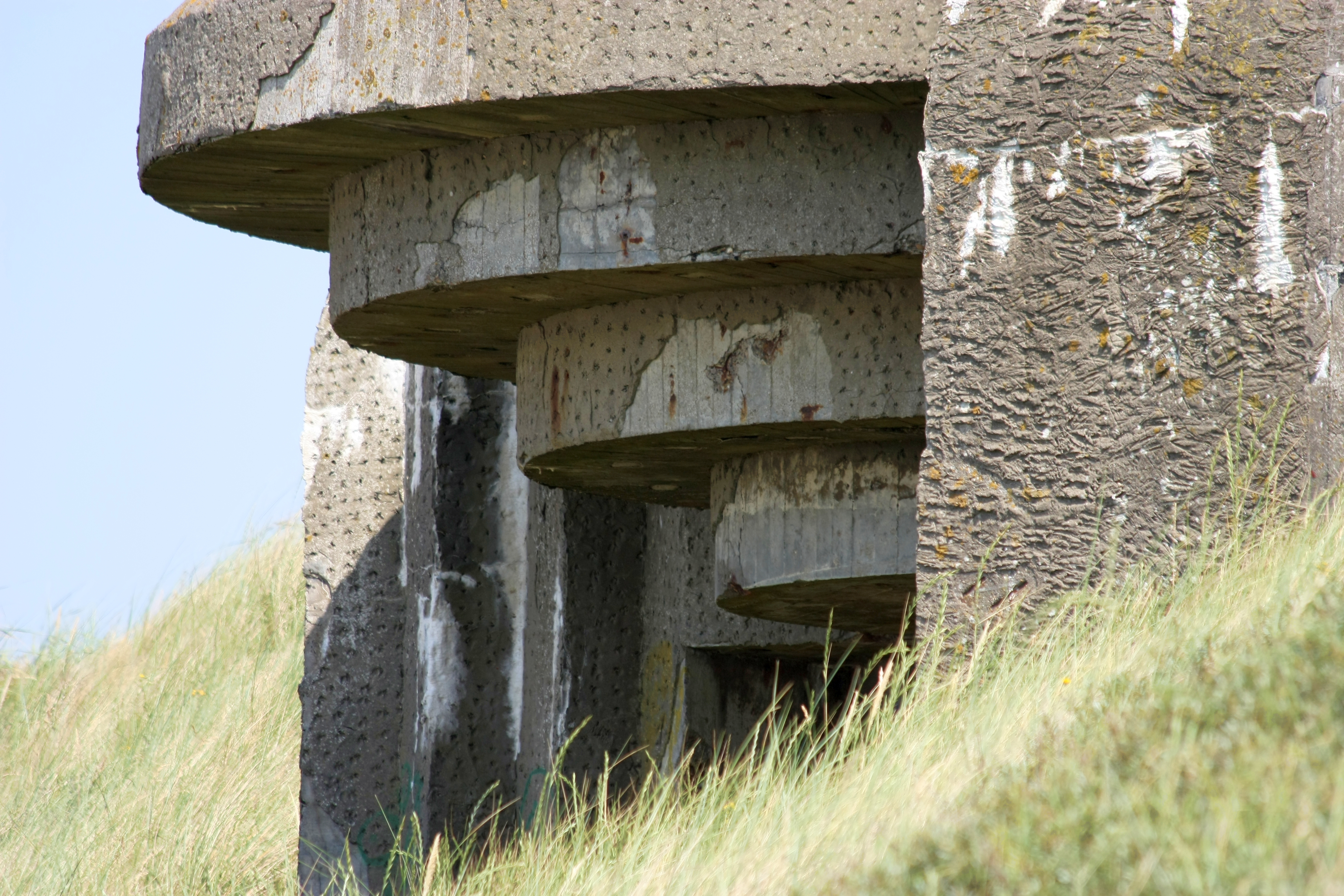 A bunker type 671SK of the "Marine Seeziel-Batterie Scheveningen Nord", part of the German Atlantikwall.